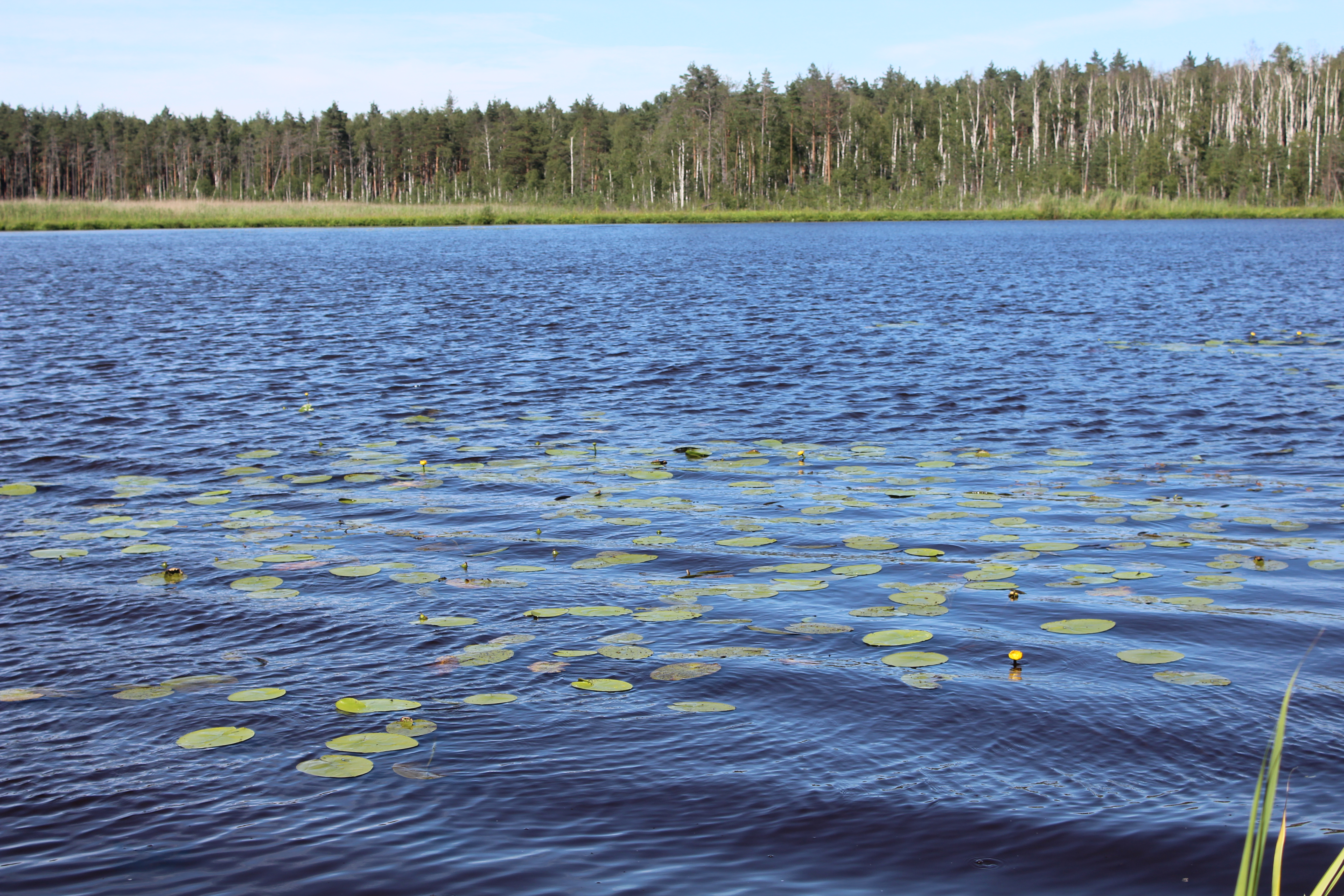 Lake Mazais Jūgezers, near Rīga, Latvia. View from the swampy SW coast in dry summer 2019-06-24.